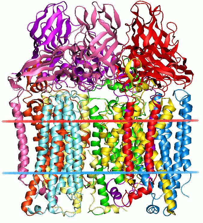 Particulate methane monooxygenase from the methanotroph Methylococcus capsulatus. Protein image from OPM database